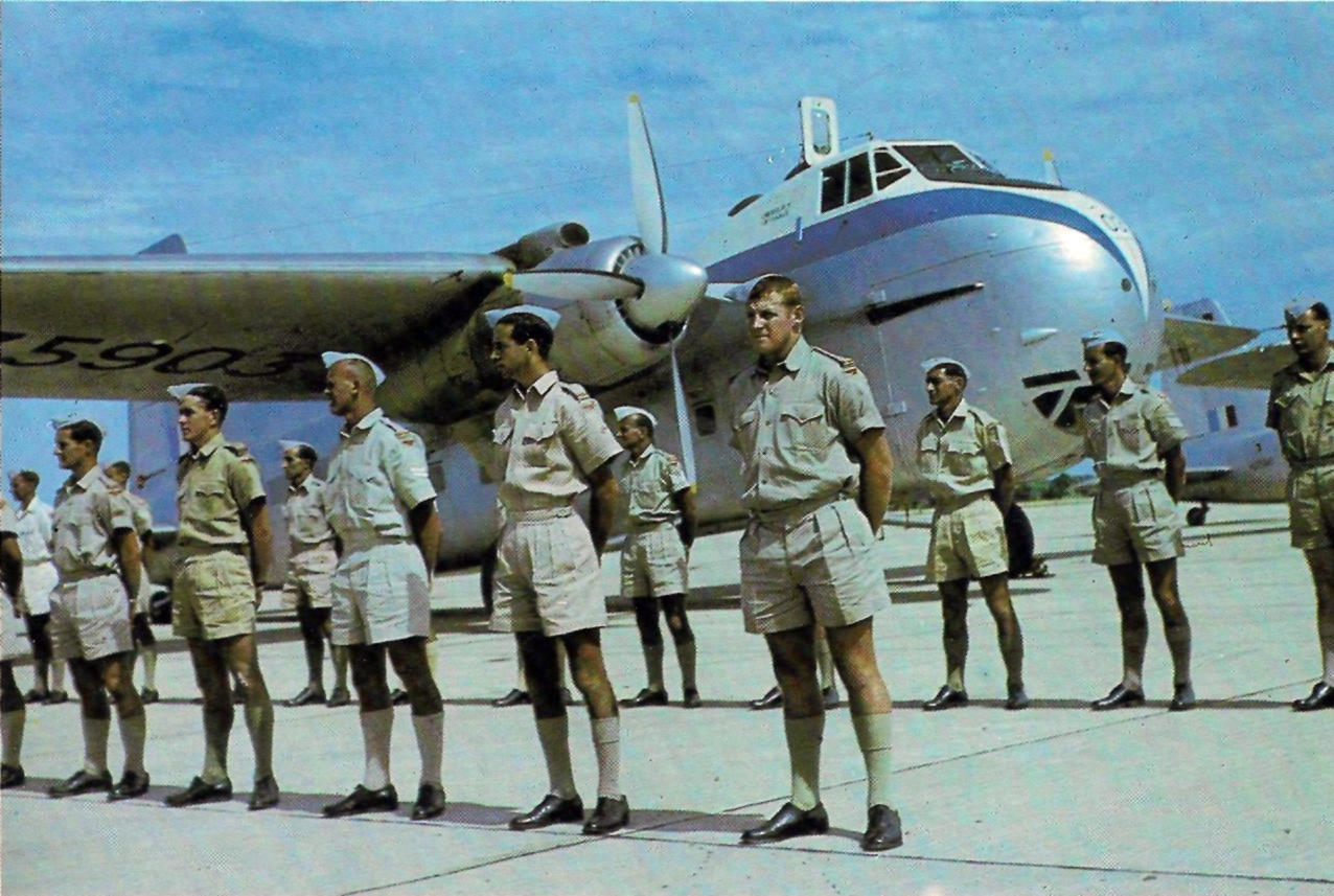 A Royal New Zealand Air Force Bristol Freighter (s/n NZ5903) from No. 41 Squadron during a display at Thailand, in June 1962. This aircraft is today preserved at the RNZAF Museum at Wigram, Christchurch.